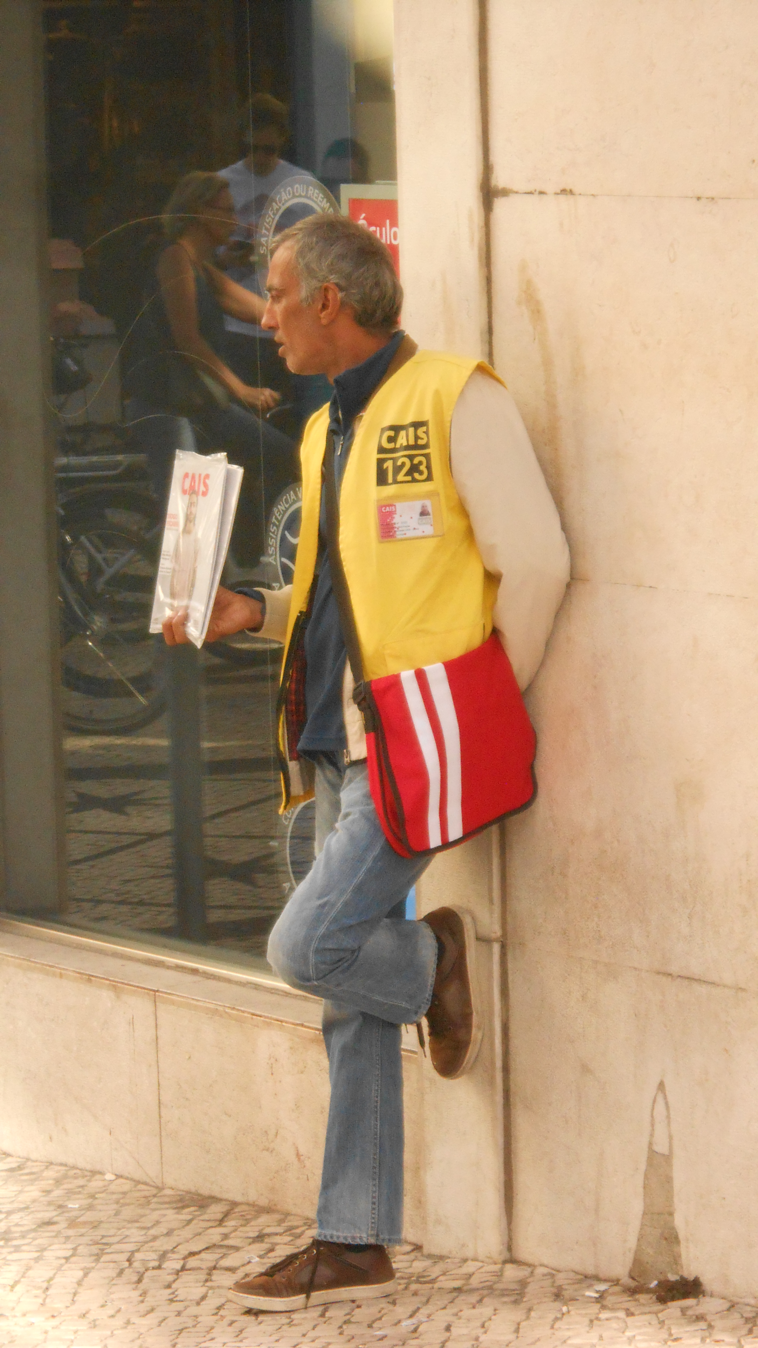 Vendor of the CAIS street paper in the Chiado quarter in Lisbon.